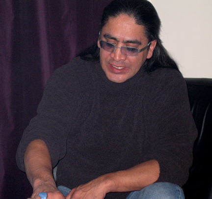 Ed Archie Noisecat (Canim Lake Band of Shuswap Indians-Stlitlimx), sculptor, glass artist, fine furniture maker, from Santa Fe, NM